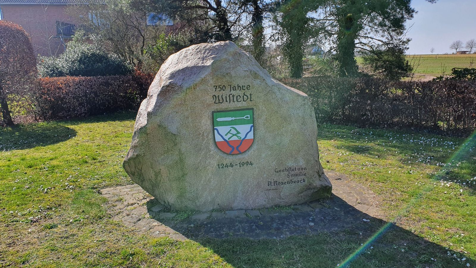 Ortsstein Wistedt